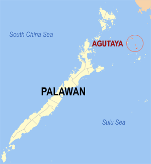 Map of Palawan showing the location of Agutaya